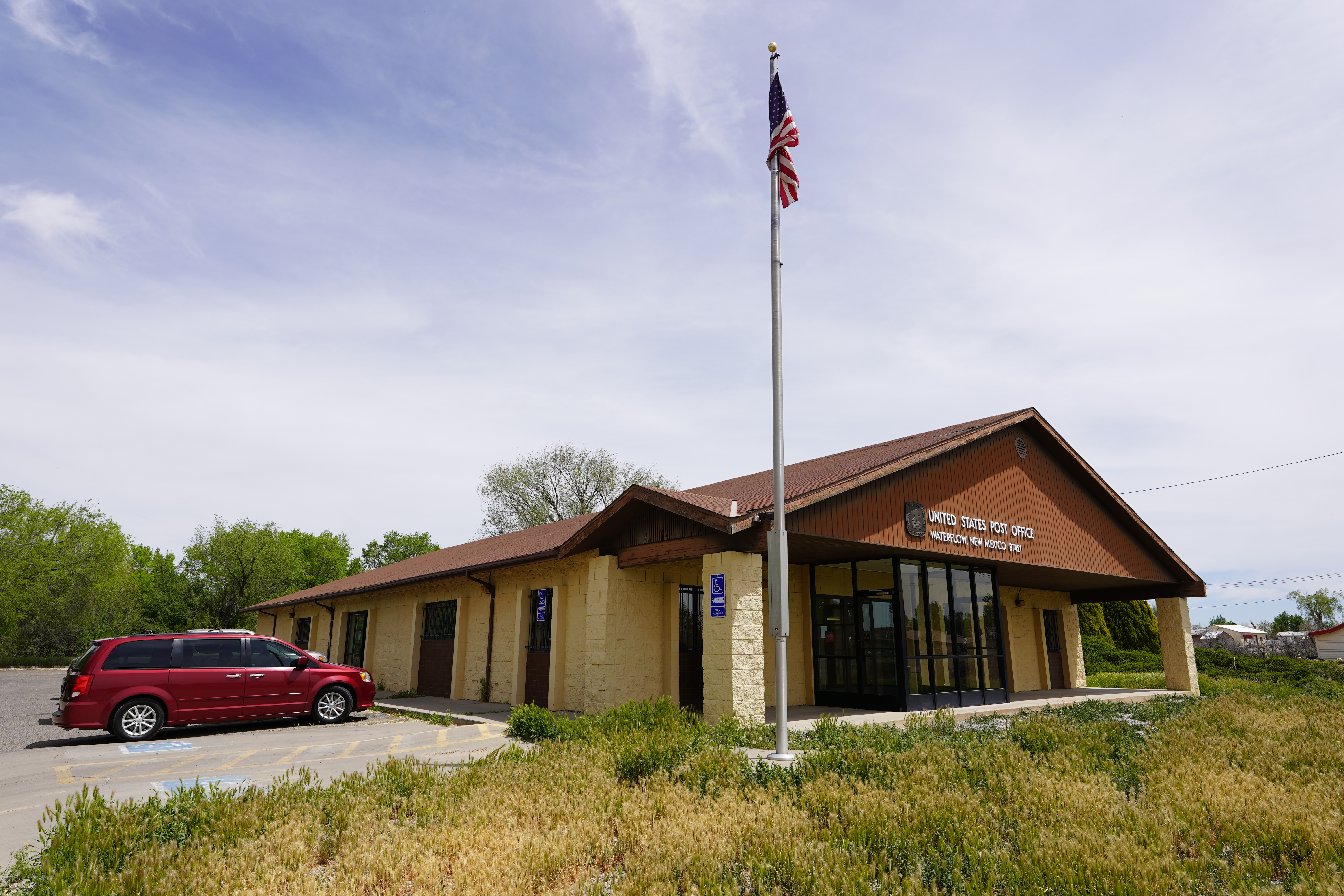 The photograph is of the United States Post Office for Waterflow, New Mexico. Photograph taken on 2019-05-06T18:00:40Z.